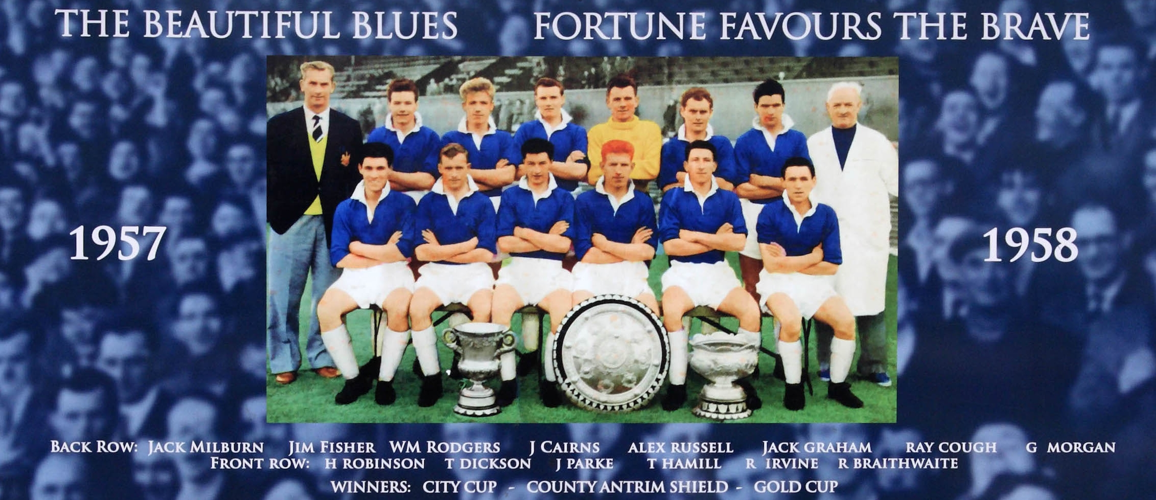 Art depicting the Linfield F.C. squad of the 1957/58 season.